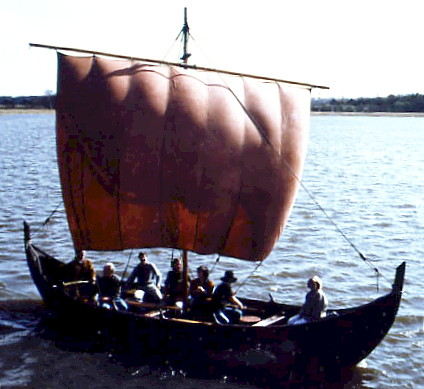 The Aifur, a replica of a small Viking ship.